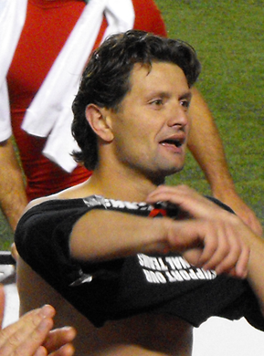 Canadian national team striker Tomasz Radzinski donning a "Sack the CSA" shirt at the Canada - Mexico second round World Cup qualifying match at Commonwealth Stadium in Edmonton, Alberta on October 16, 2008.